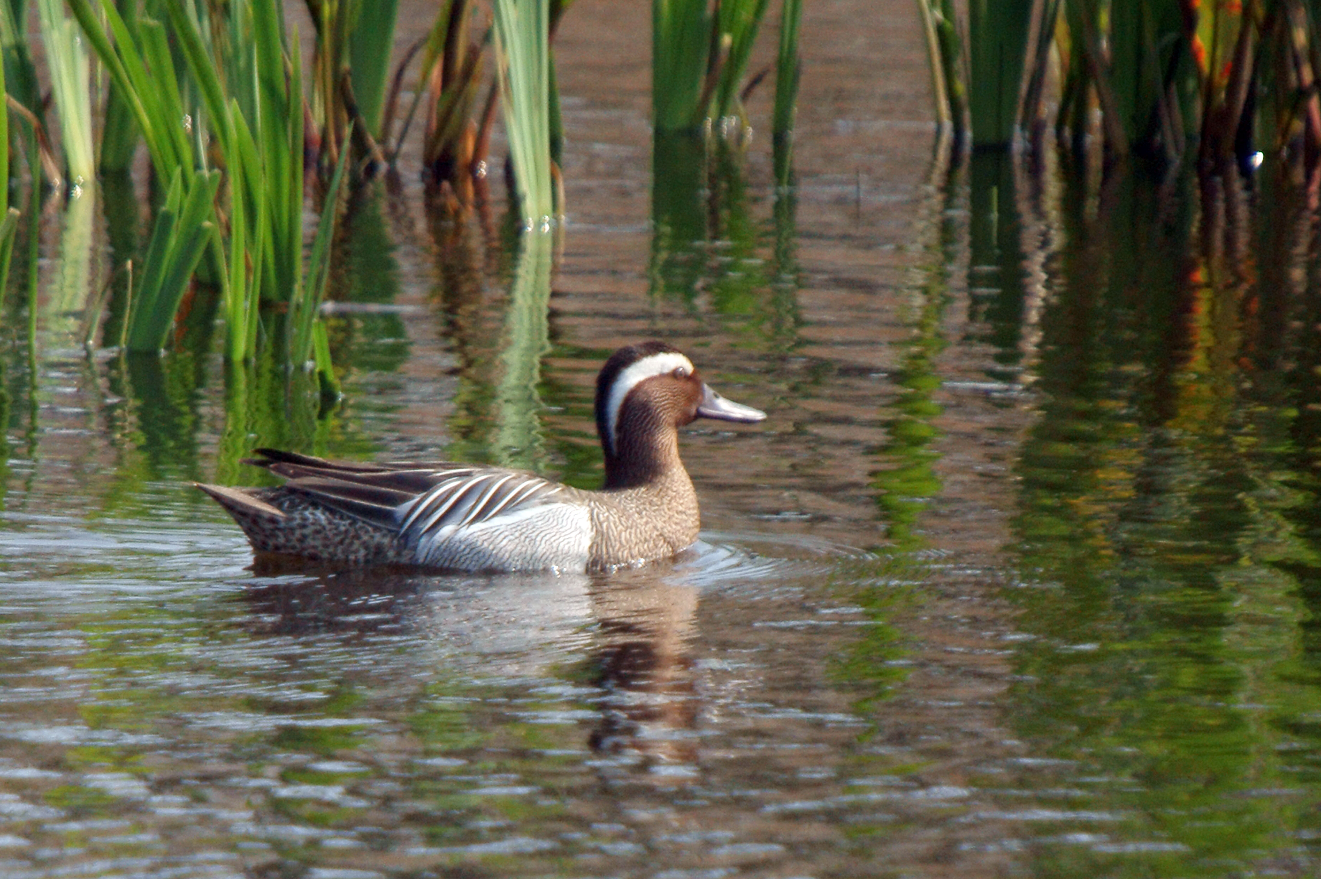 Garganey Anas querquedula, male, swimming in front of the Grisedale Hide, Leighton Moss, Lancashire, UK